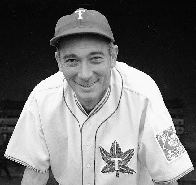 Toronto Maple Leafs manager Tony Lazzeri, 1939 or 1940